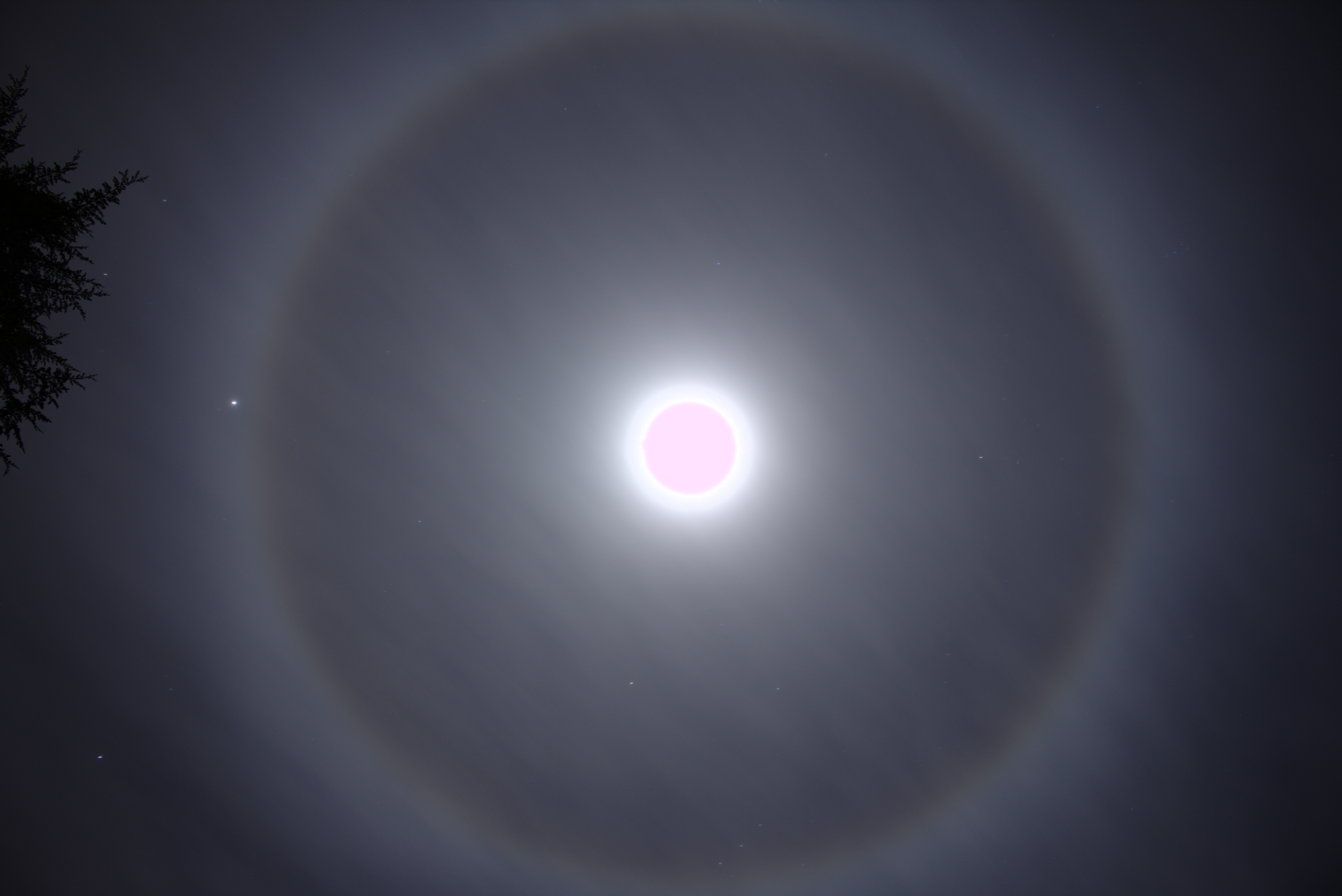 A 22 degree halo around the moon in Atherton, CA. Taken on 2013-12-17.